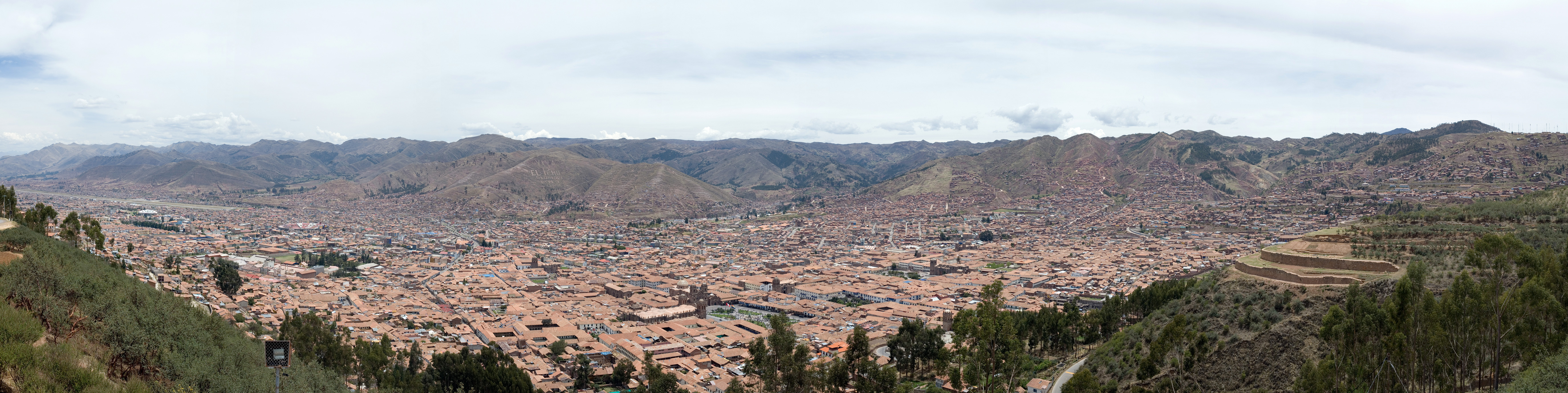 A panoramic image of Cuzco, Peru. This is an 8x1 panoramic stich taken from Christo Blanco.